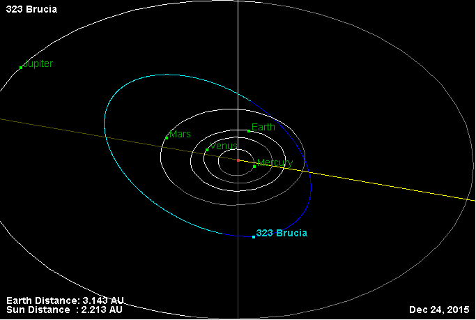 Orbit diagram of 323 Brucia